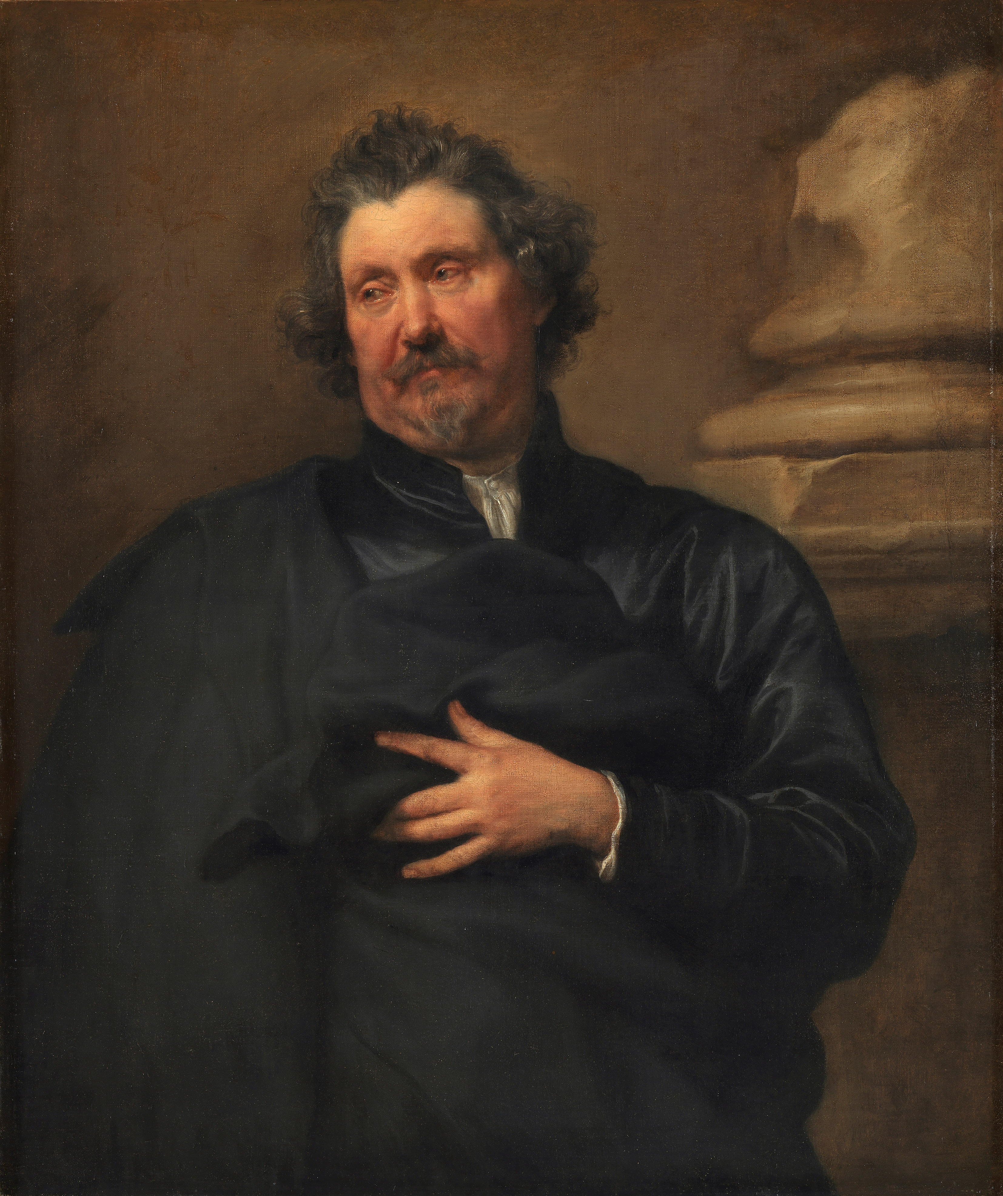 Portrait of the engraver Karel van Mallery.